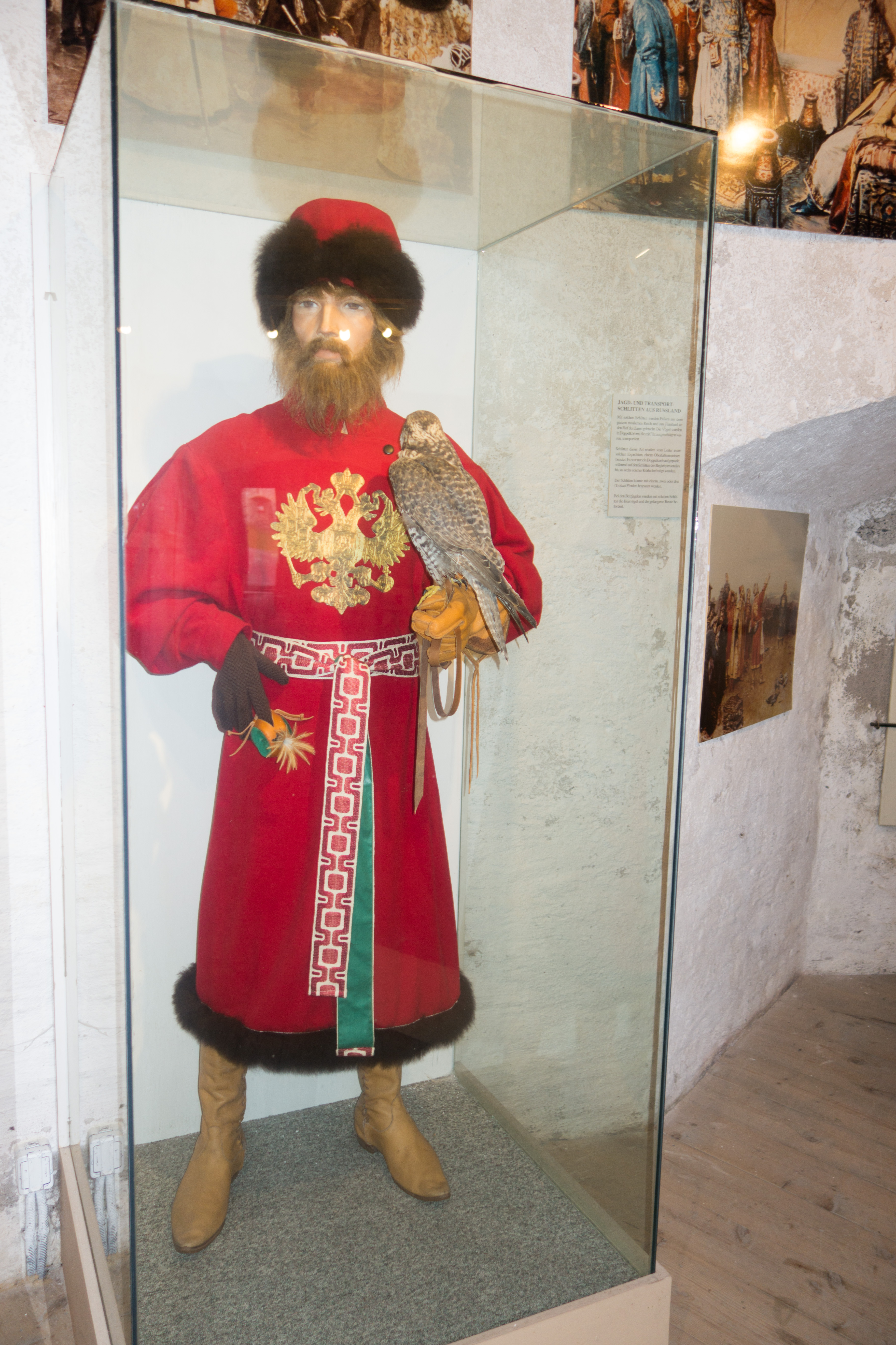 Austria